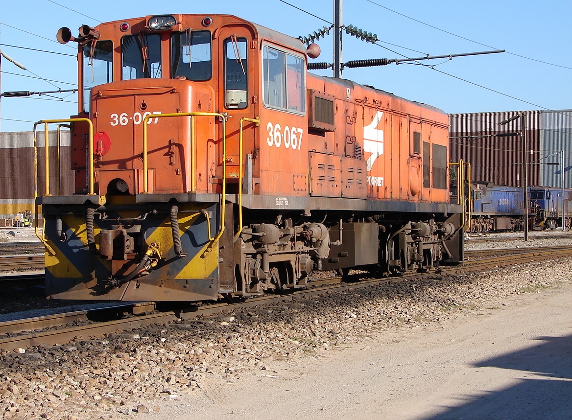 South African Class 36-000 36-067 Builder's Number: GE 40486 Type: GE SG10B Location: Saldanha, Western Cape